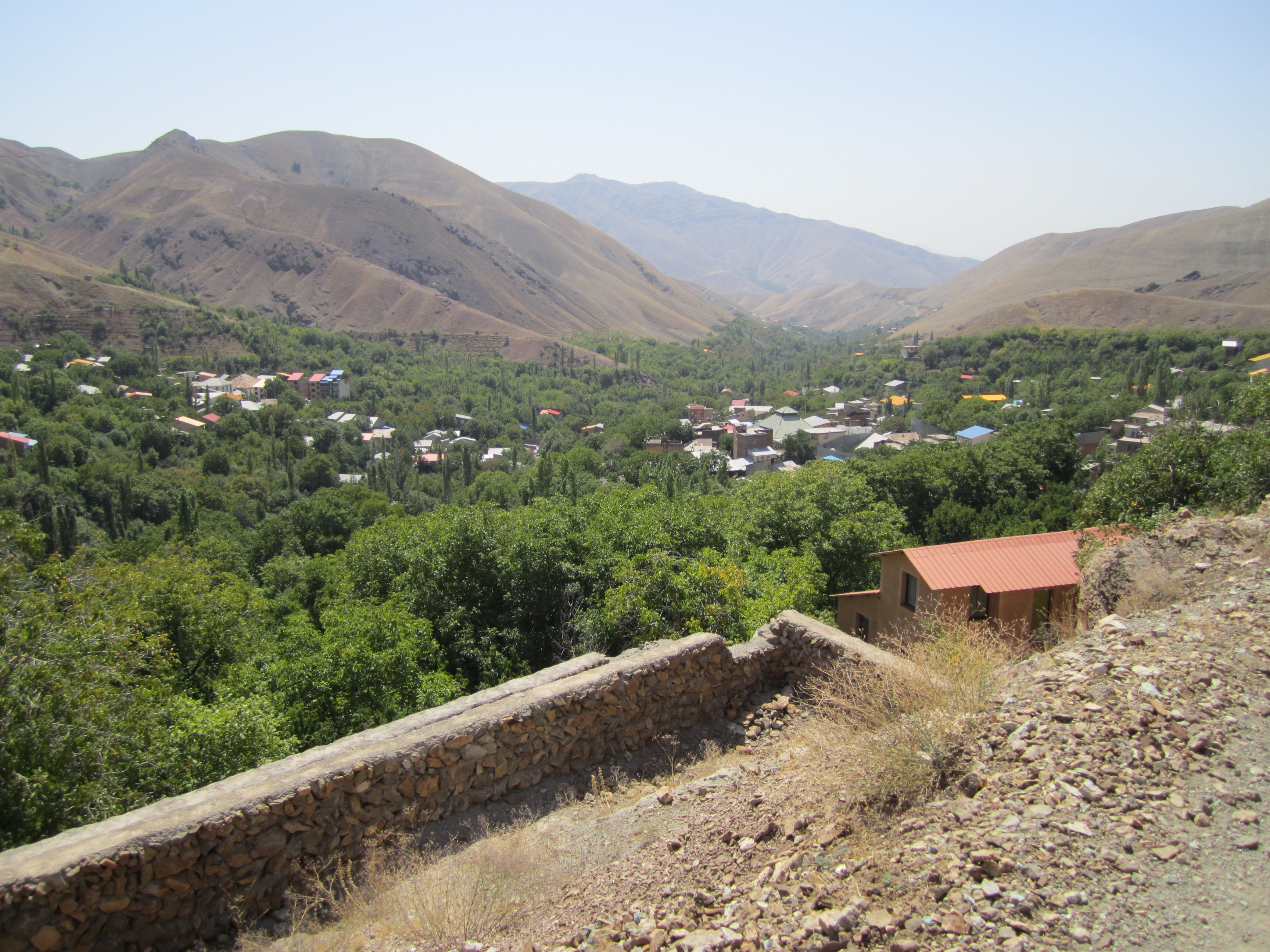 نمایی از روستای برگ جهان